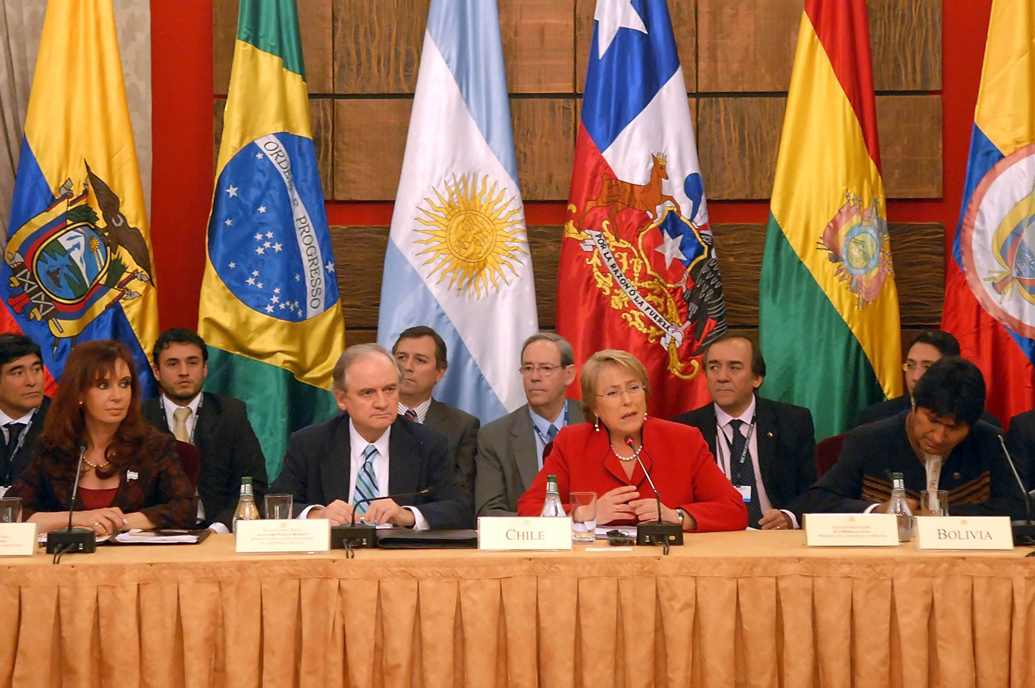 UNASUR Summit. Palacio de la Moneda, Santiago de Chile. FRom left to right: Pt. Cristina Fernández (Argentina), M. José Miguel Insulza (OAS), Pt. Michelle Bachelet (Chile), Pt. Evo Morales (Bolivia).